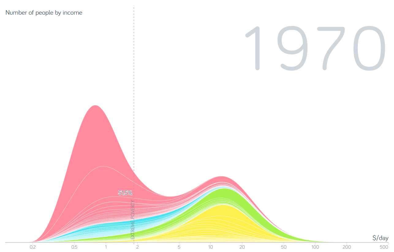 Density Function of the Worlds Income Distribution in 1970 by Continent, logarithmic scale Asia und Oceania Africa America Europe